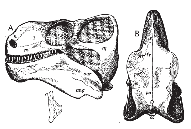 Skull of Edaphosaurus in lateral and dorsal view.